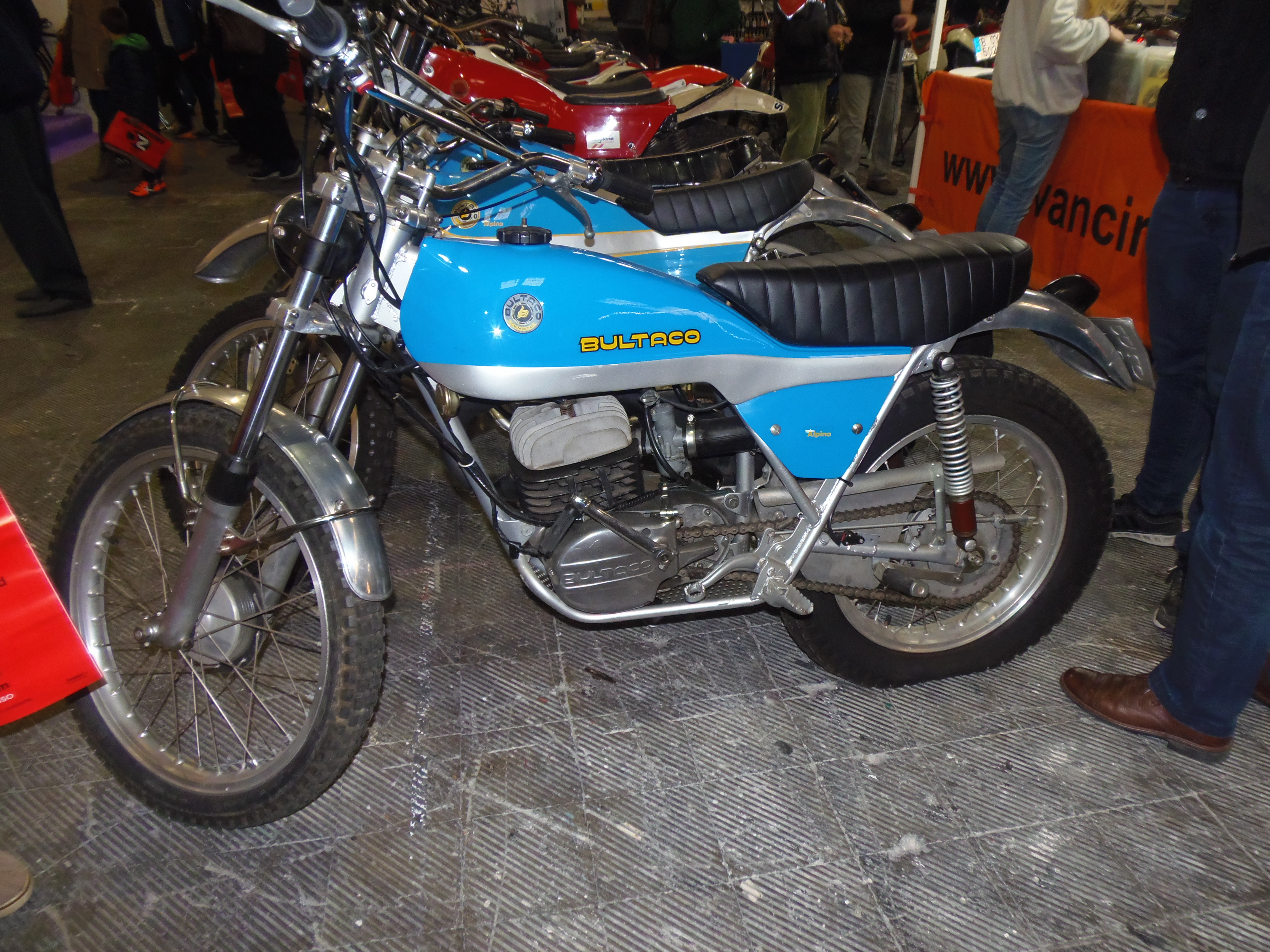 Bultaco Alpina 250, mod. 115, 1974